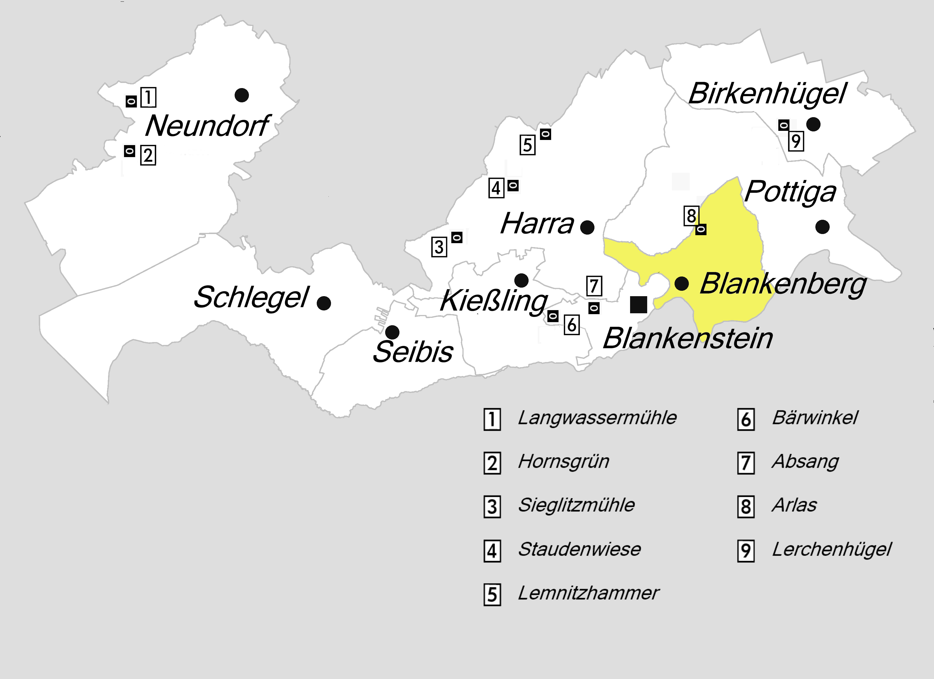 District-Maps of Rosenthal am Rennsteig